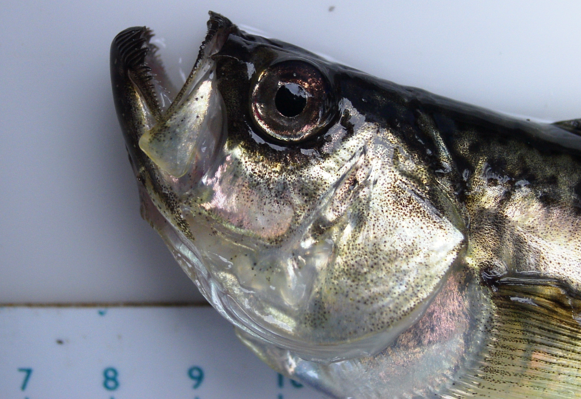 Head of Pacific sandfish caught during trawling operations. Image ID: fish4040, NOAA's Fisheries Collection Location: Alaska, Southeast Photo Date: 2001